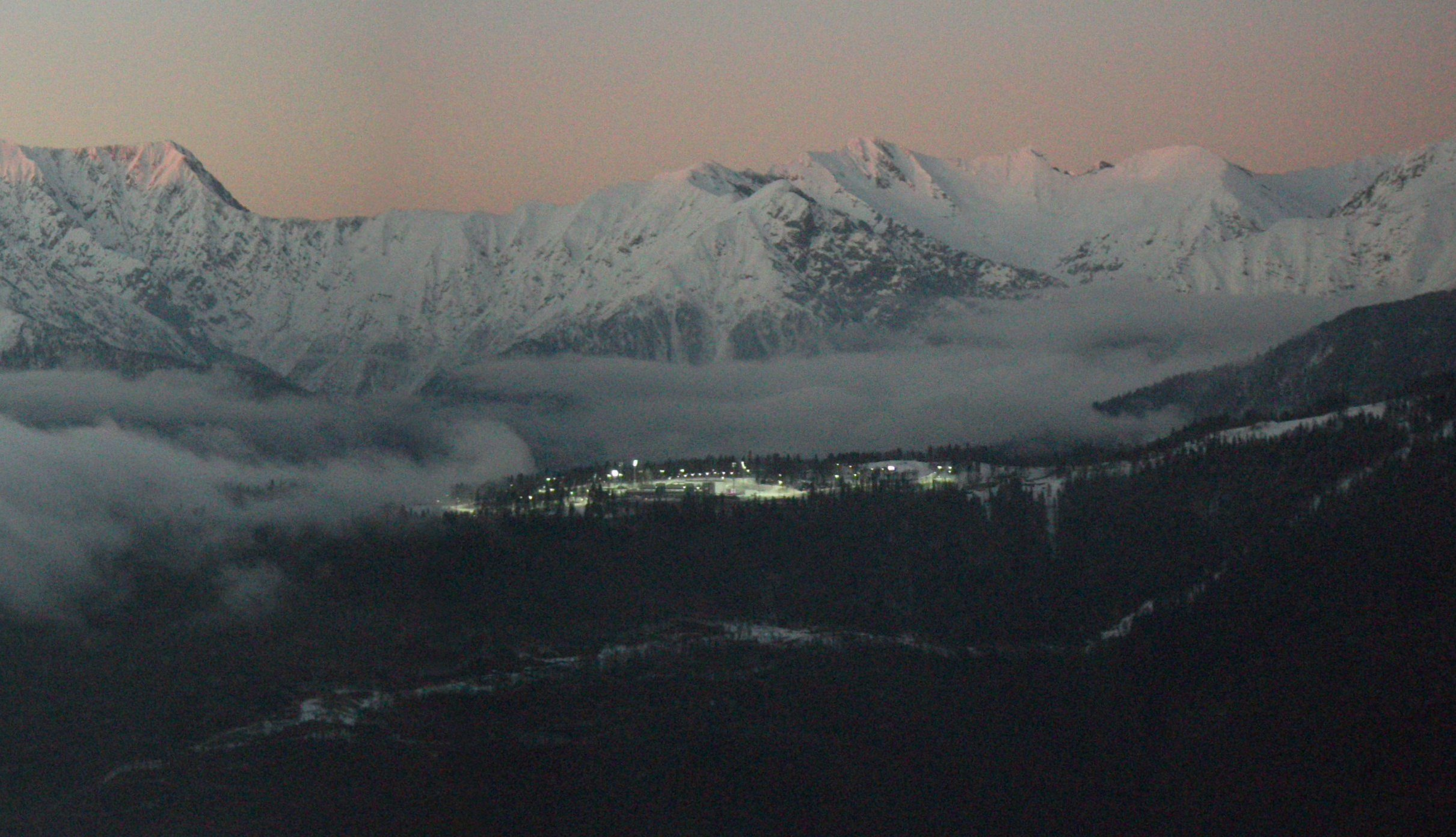 Ski and biathlon complex Laura on Psekhako Ridge. The picture is made from Aibga Ridge in the evening when at artificial lighting on LBK Laura passed biathlon competitions during the Winter Olympic Games 2014. A photographing point at the height about 1600-1800 meters above sea level.